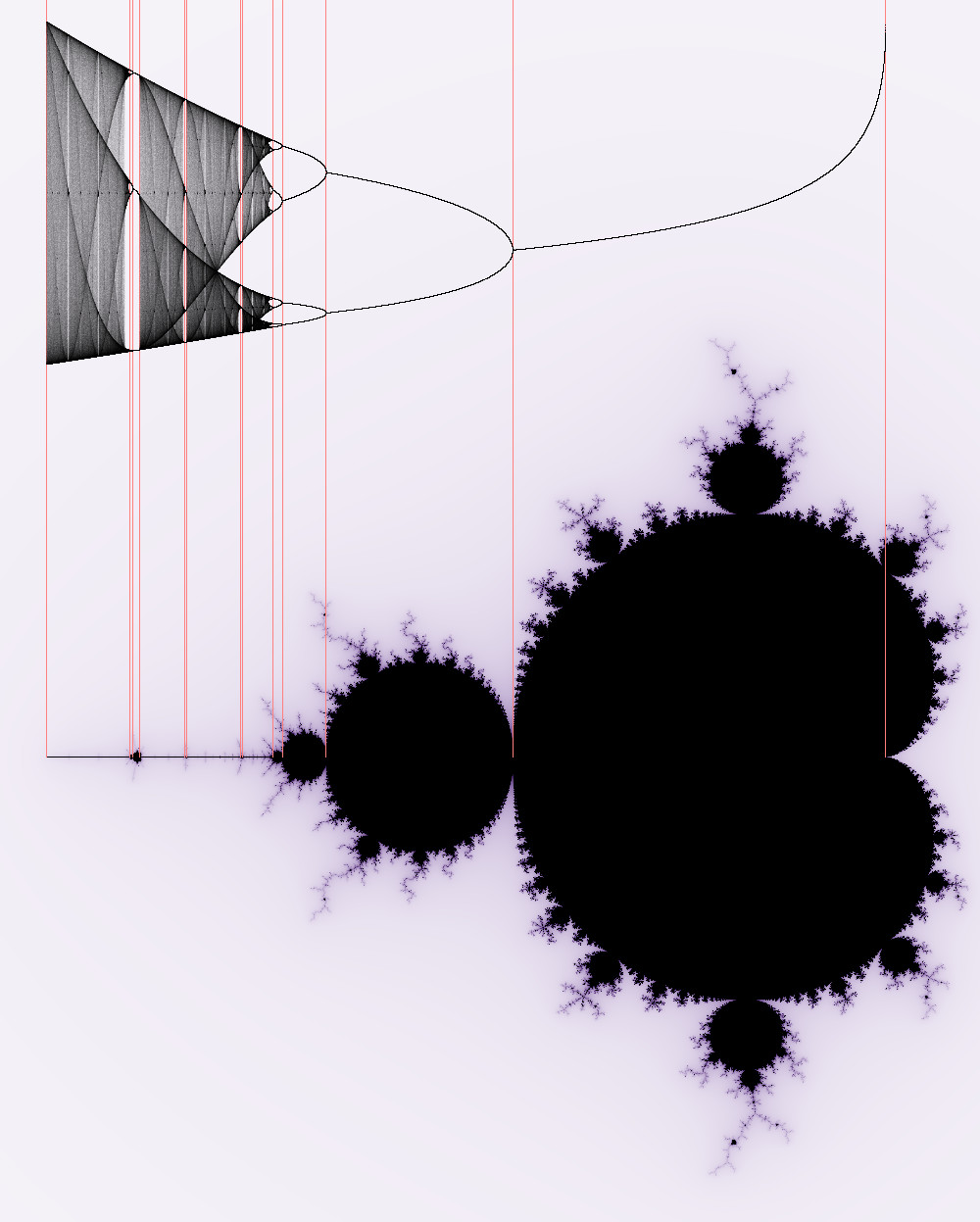 Diagram showing the connexion between Verhulst dynamic and Mandelbrot set